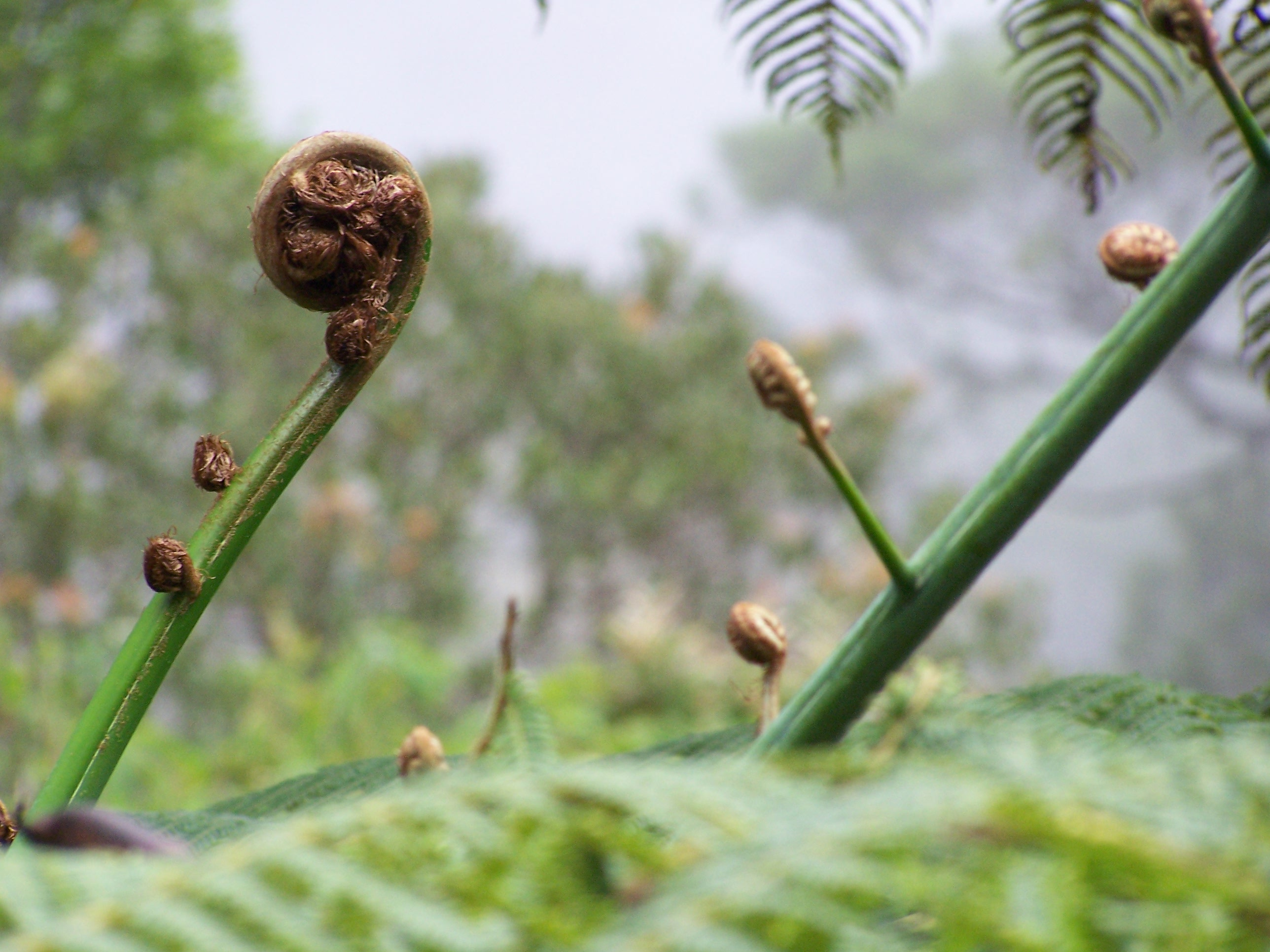 Mount Kinabalu in Malaysian Borneo has some stunning jungle scenery. This photo was taken on a climb up the mountain.